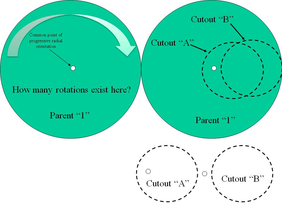 The rotational condition that exists before they were cut out is the same fundamental condition as after they are cut out. The common point for “Parent 1” lay internal to “Parent 1”. After they are cut out the common point lay in the same place as it did before, however now the common point lay external to the cutout. The motion of both parent 1 and the cut out are one and the same. However since the physical perimeter of the body has changed we must consider where the common point of motion lay internal or external of that body. The fact that the physical perimeter of a body has changed itself does not demand a change in the nature of any motion that body may have, which is under consideration. Orbit and spin are fundamentally one and the same thing. The Difference here is simply in a orbit the common point lay external to the body and in a spin the common point lay internal to the body in question. Both are "rotations" and both are the very same "rotation".